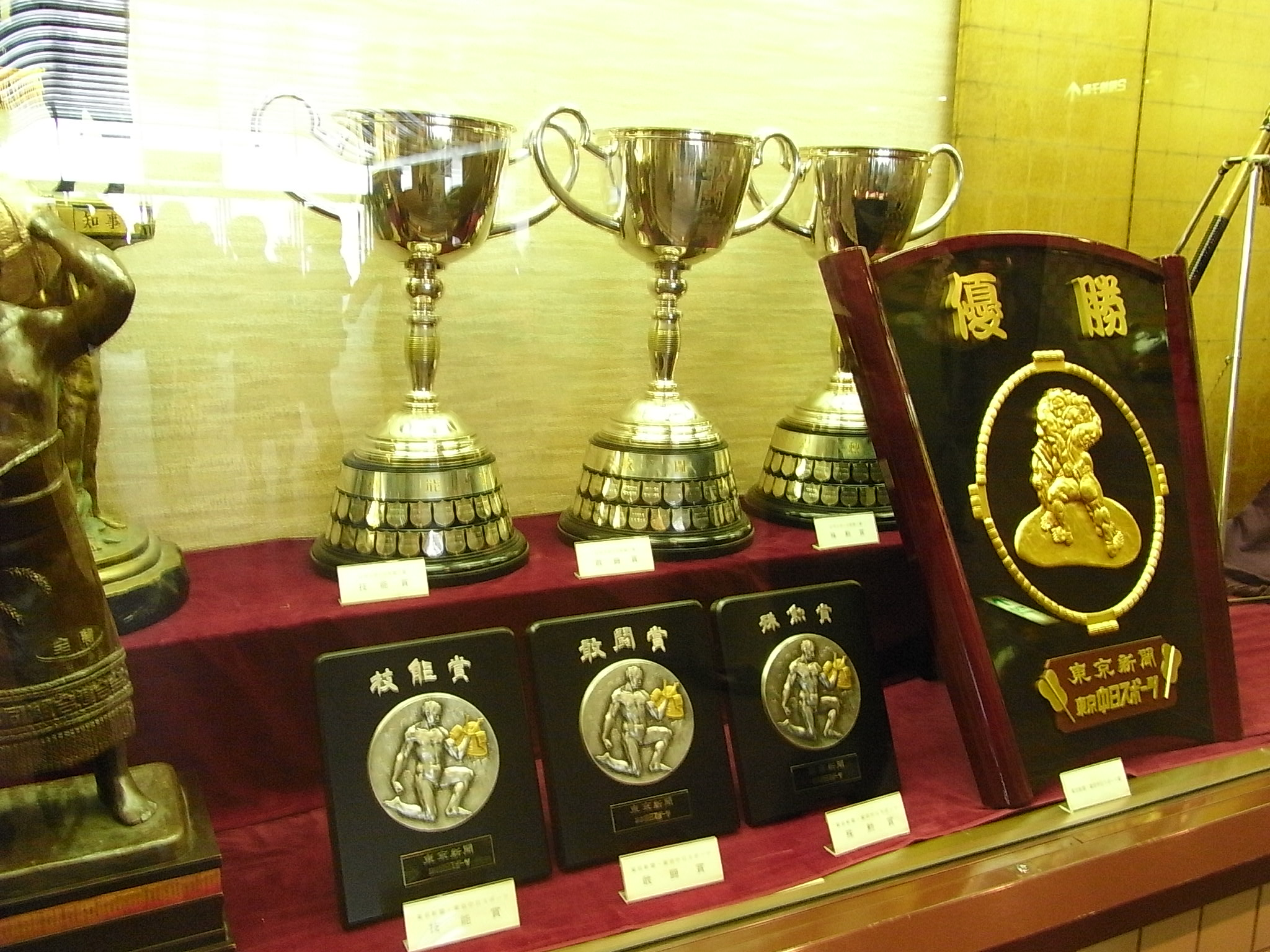 Ryogoku Kokugikan. Third Prize (Special Award, Fighting Prize, Skill Award, taken on April 29, 2009)